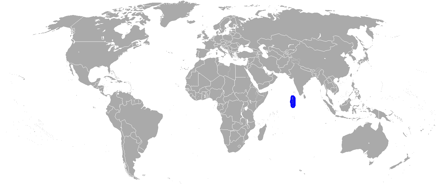 Distribution of Marleyella maldivensis, using a blank map of the world showing 2008 borders. Based on File:BlankMap-World.png; as it is PD, this is too.